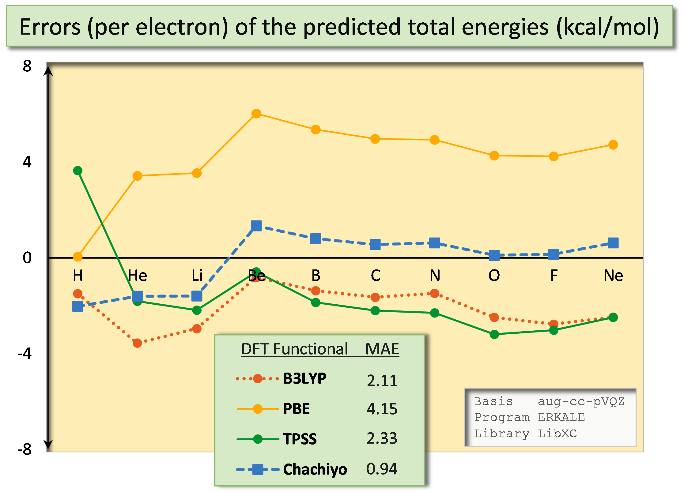 The exact values are from (D.P. O'neill and P.M.W. Gill, 2005). The mean-absolute-error (MAE) are shown in the inset. The difference between the predicted total energy and the exact total energy is first computed, and then divided by the number of electrons to obtain the "error per electron". /// /// Raw Data /// Total energies in Hatrees: Atom Exact Chachiyo B3LYP PBE TPSS H -0.5000 -0.5032 -0.5024 -0.4999 -0.4942 He -2.9037 -2.9088 -2.9151 -2.8928 -2.9095 Li -7.4781 -7.4857 -7.4922 -7.4612 -7.4886 Be -14.6674 -14.6589 -14.6726 -14.6290 -14.6712 B -24.6539 -24.6475 -24.6649 -24.6112 -24.6687 C -37.8450 -37.8397 -37.8608 -37.7975 -37.8661 N -54.5892 -54.5823 -54.6057 -54.5342 -54.6149 O -75.0673 -75.0660 -75.0990 -75.0129 -75.1081 F -99.7339 -99.7318 -99.7736 -99.6731 -99.7773 Ne -128.9376 -128.9277 -128.9771 -128.8623 -128.9773 Exact ref: D.P. O’neill and P.M.W. Gill, "Benchmark correlation energies for small molecules", Mol. Phys. 103 (2005) 763–766, ERKALE Input file: System correlation/ne.xyz Method gga_x_chachiyo+gga_c_chachiyo #Method hyb_gga_xc_b3lyp #Method gga_x_pbe-gga_c_pbe #Method mgga_x_tpss-mgga_c_tpss Basis aug-cc-pVQZ Multiplicity 1 Charge 0 Direct True UseLM True B3LYP: P. J. Stephens, F. J. Devlin, C. F. Chabalowski, and M. J. Frisch, J. Phys. Chem. 98, 11623 (1994) PBE: J. P. Perdew, K. Burke, and M. Ernzerhof, Phys. Rev. Lett. 77, 3865 (1996) TPSS: J. Tao, J. P. Perdew, V. N. Staroverov, and G. E. Scuseria, Phys. Rev. Lett. 91, 146401 (2003) Chachiyo: T. Chachiyo, H. Chachiyo, Computational and Theoretical Chemistry 1172, 112669.